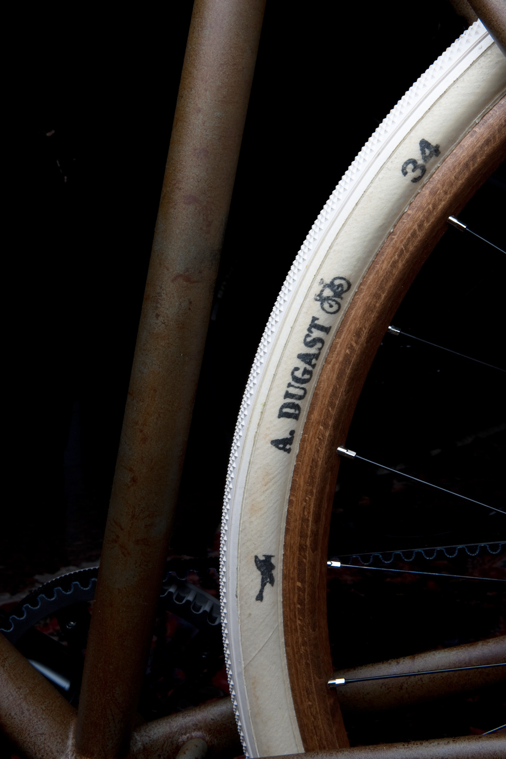 Dugast Pipistrello Cotton Cross Tubular Schlauchreifen. More info @